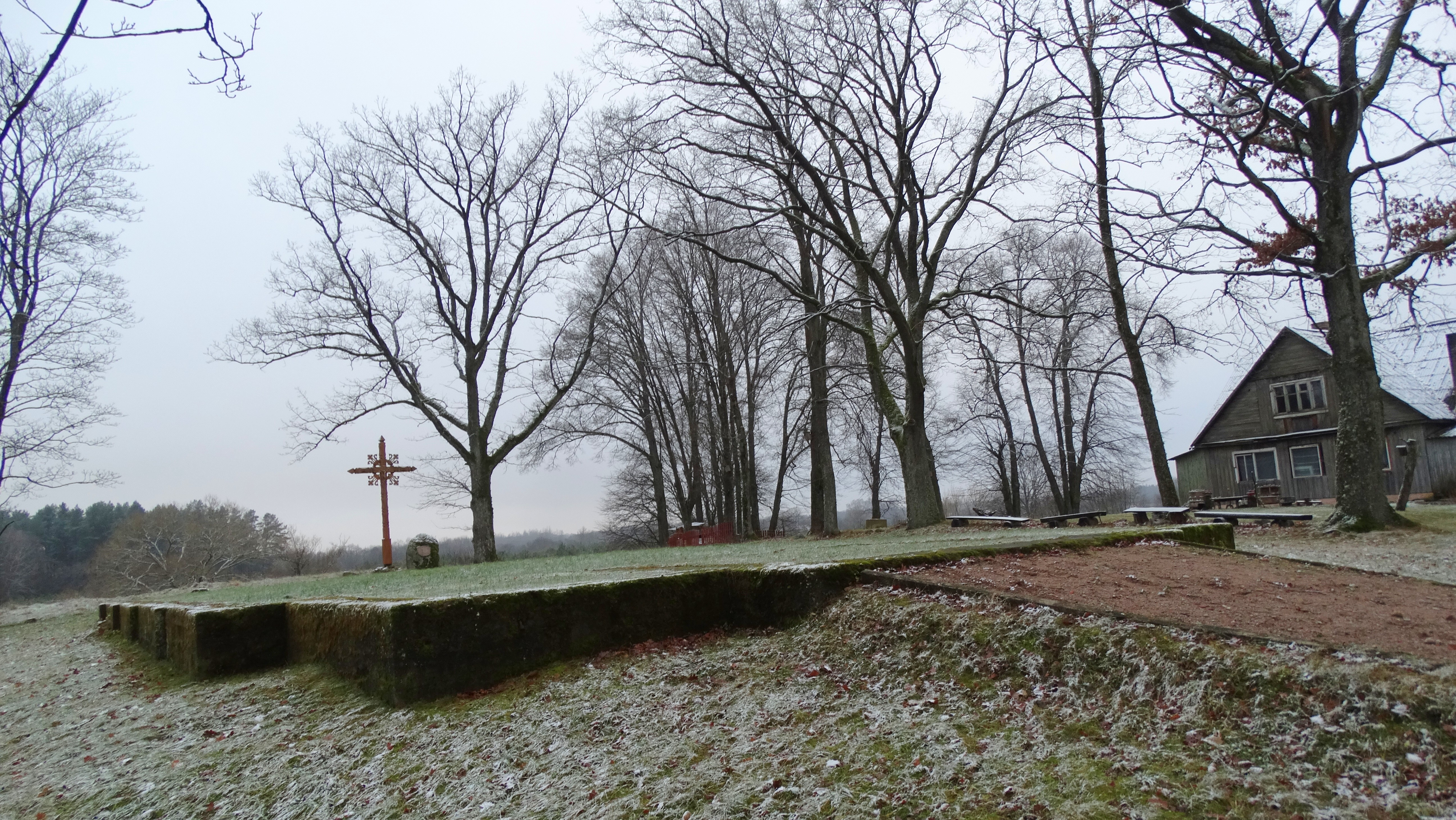 Pajūris, Tauragė district, Lithuania